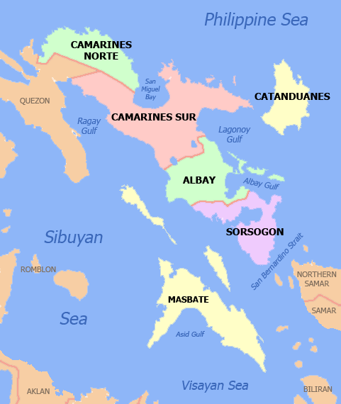 Political map of Bicol Region, Philippines. Showing Albay, Camarines Norte, Camarines Sur, Catanduanes, Masbate and Sorsogon.